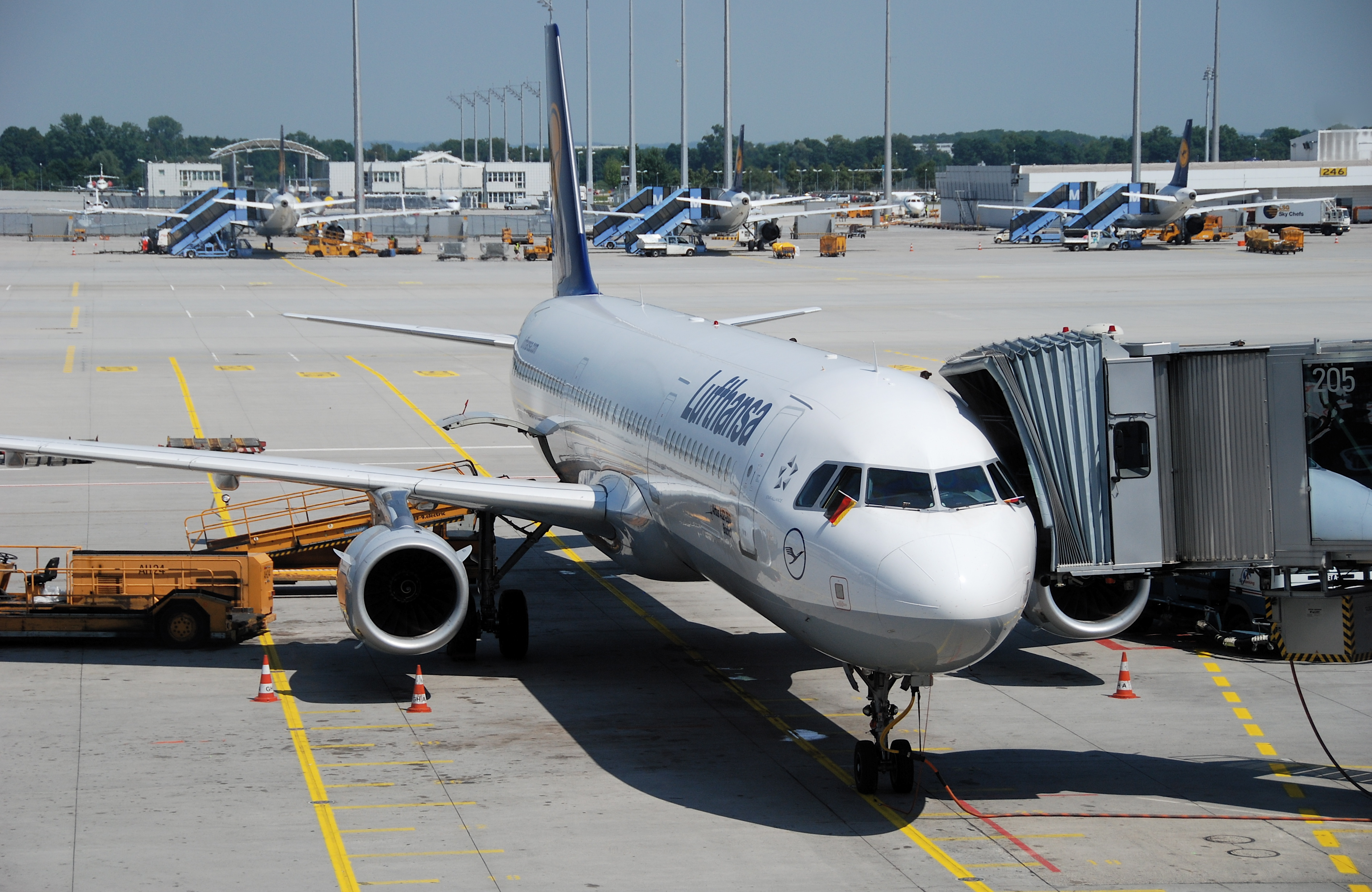 The pilots showing patriotism (one day before the dream quarter final Germany vs Argentina, which ended 4 : 0)... This A321, named 'Bocholt' took its first flight on August 18, 2008...(c/n 3625)